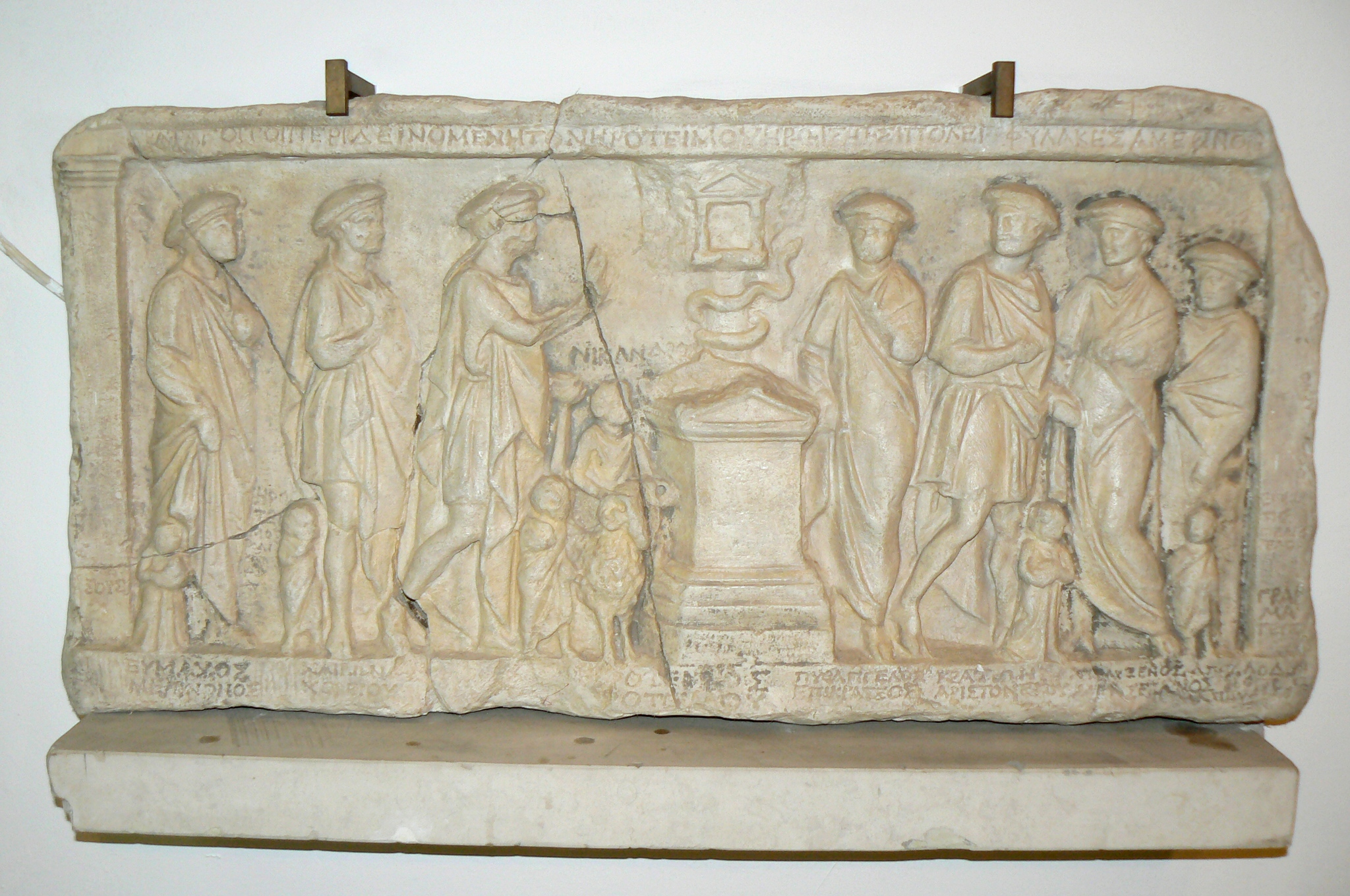 Reliefs of the Strategoi. Mesembria, 2 century BC. Burgas Archeology Meseum